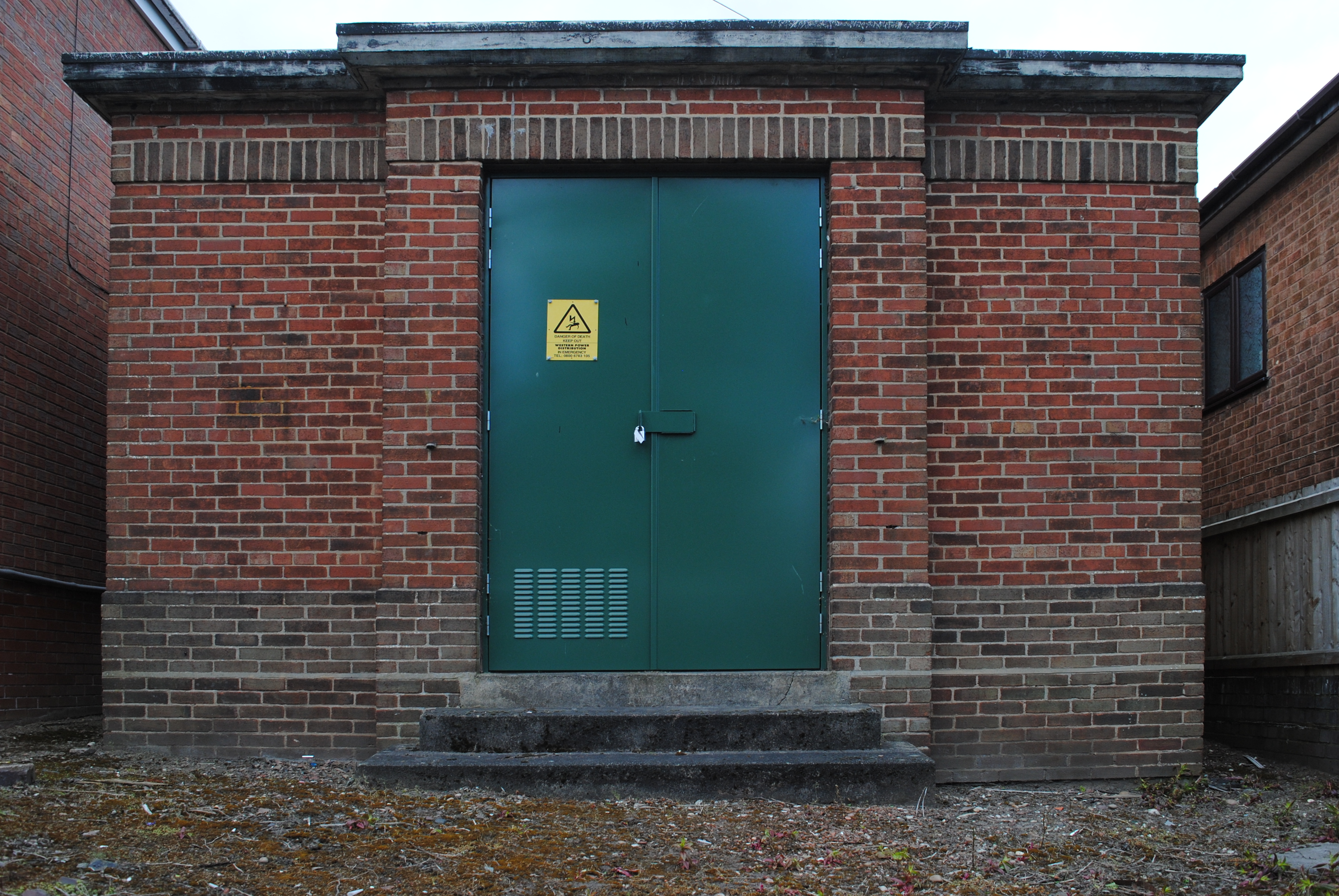 rectified in GIMP.